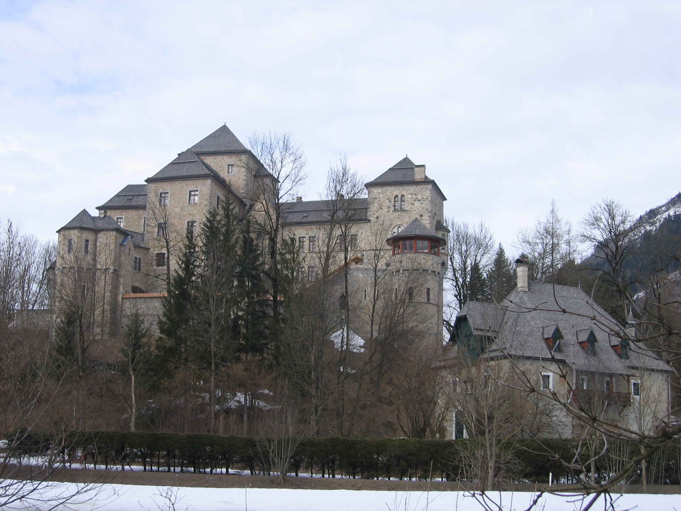 Fischhorn Castle, Bruck an der Grossglocknerstrasse, Austria, (front view)